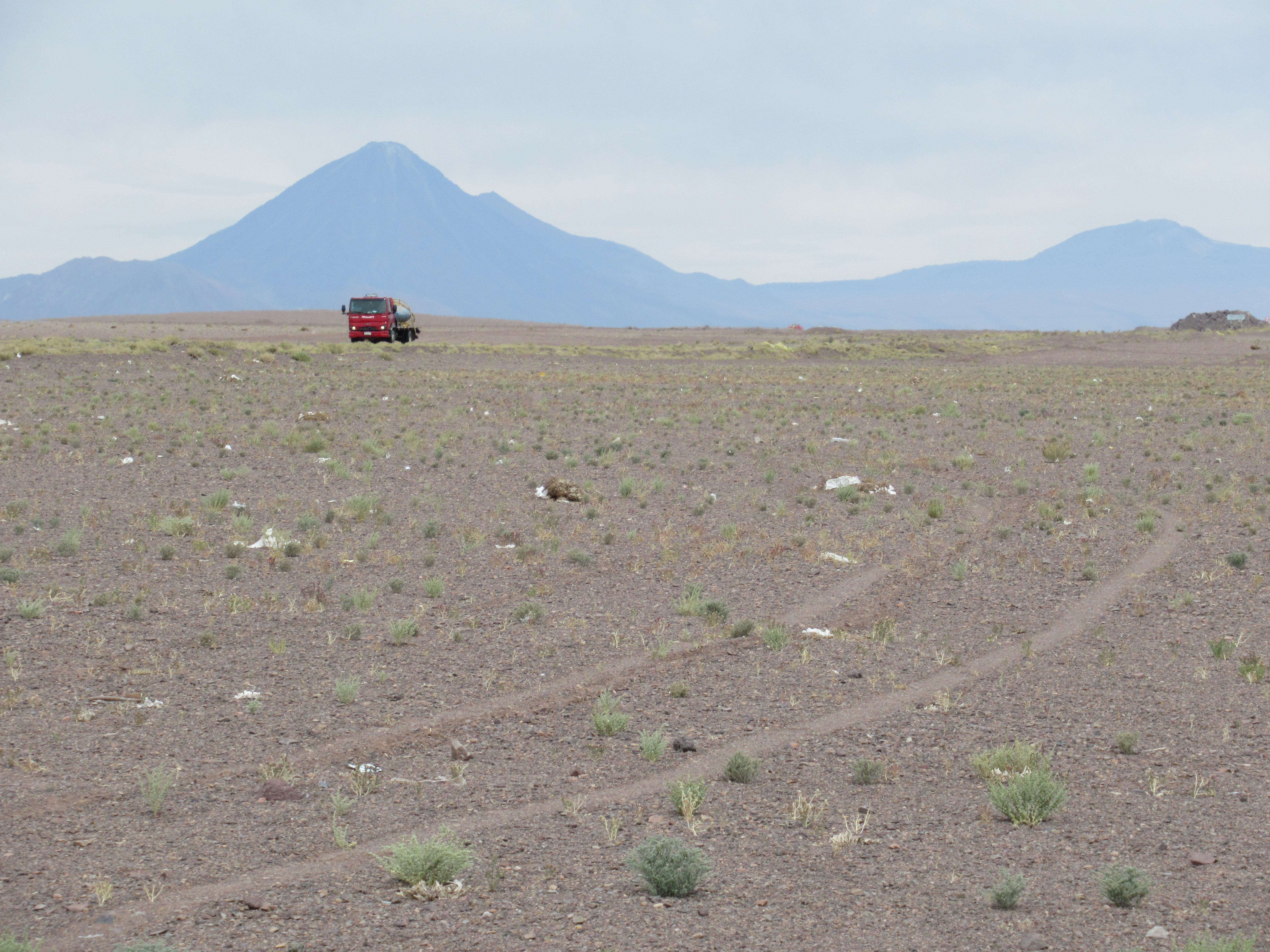 Km 48 Ruta 23-CH, 3418 m a.s.l.: At the road from Calama to San Pedro de Atacama near the top of the Paso Barros Arana through the high plain of the Cordillera de Domeyko. Licancabur in the backgound.